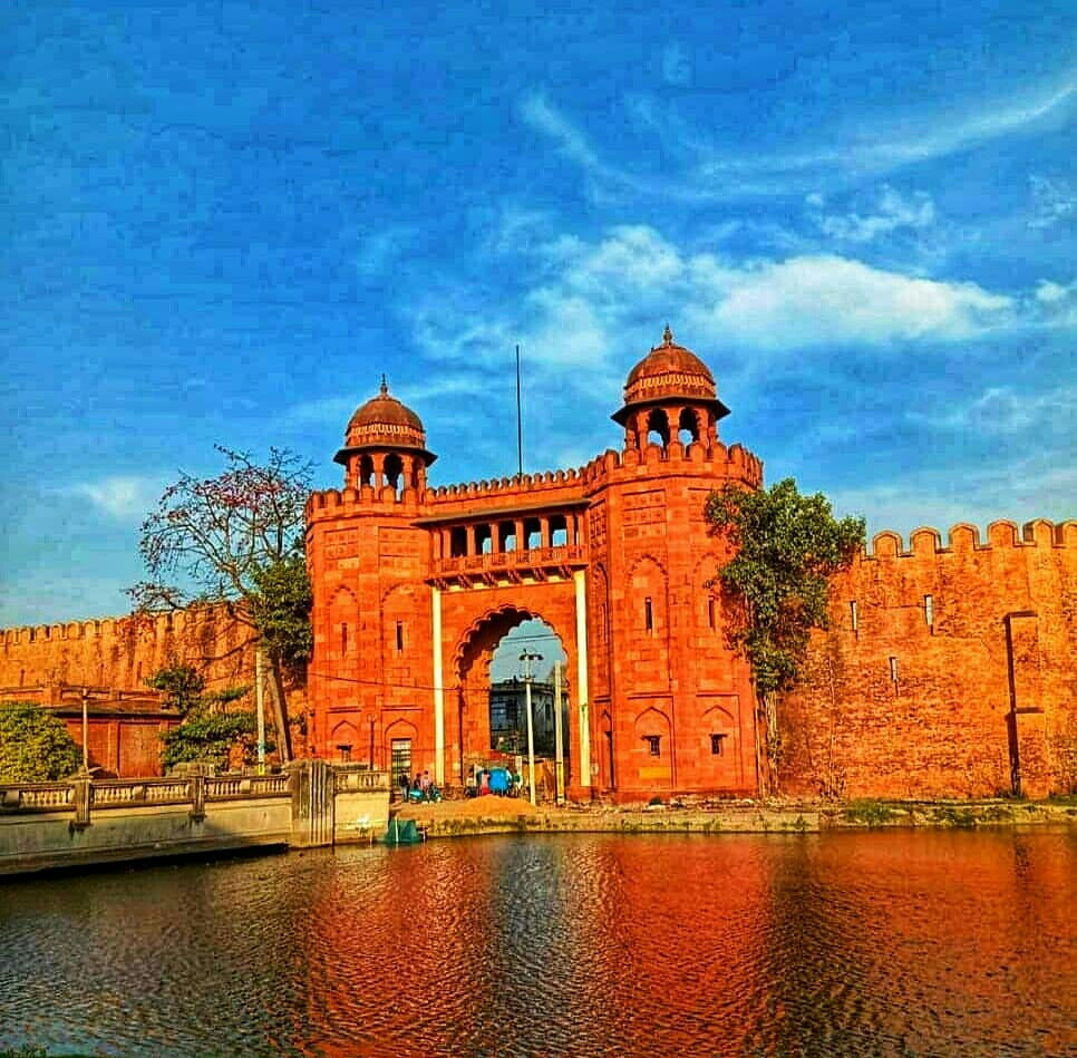 Inside view of Darbhanga Fort